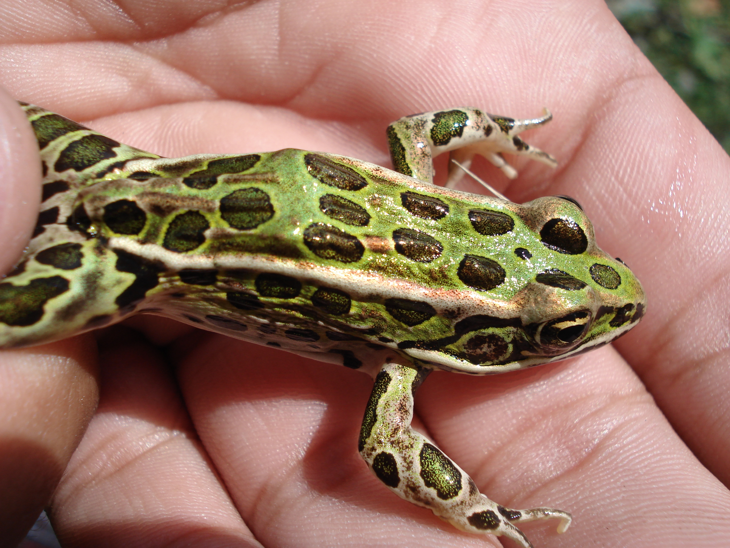 A Northern Leopard Frog. Taken and uploaded by me.